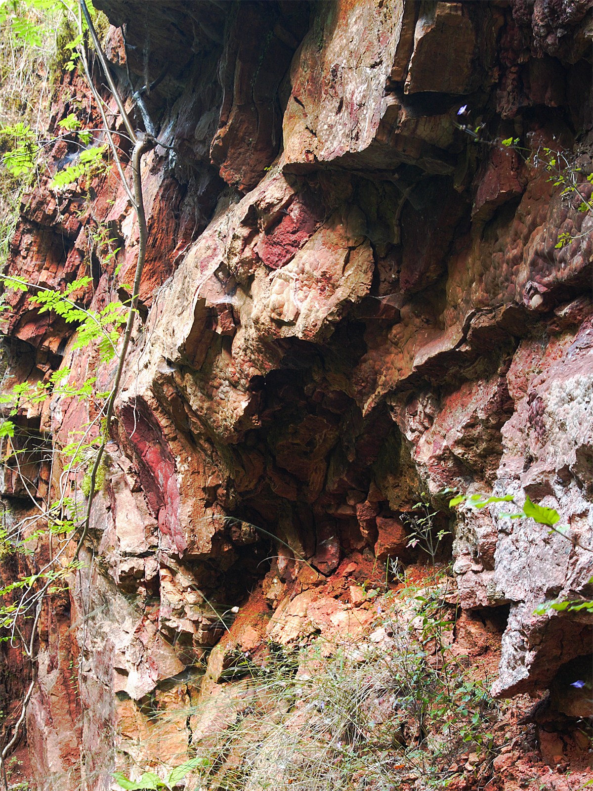 „Böttinger Marmor“. A true rarity in every respect! Warm water, rising from a 200x30m chasm at the border of the volcanic pipe of a Miocene volcano piled up alternating white and red limestone, thus producing large quantities of ”Ribboned Böttingen Marble”. The output isn’t really marble in geological terms, but travertine. The rest of the diatreme of the Böttingen volcano formed a morphological depression, as do many other volcanoes in the “Urach-Kirchheimer Vulkangebiet” of the Middle Swabian Alb. Even after 10 Mill. years of weathering and erosion the chasm and the diatreme still prevail.